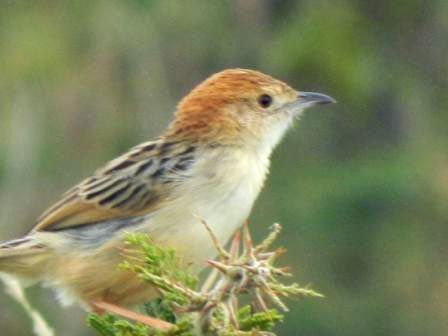 Rattling Cisticola (Cisticola chiniana) - Gilgil, Kenya